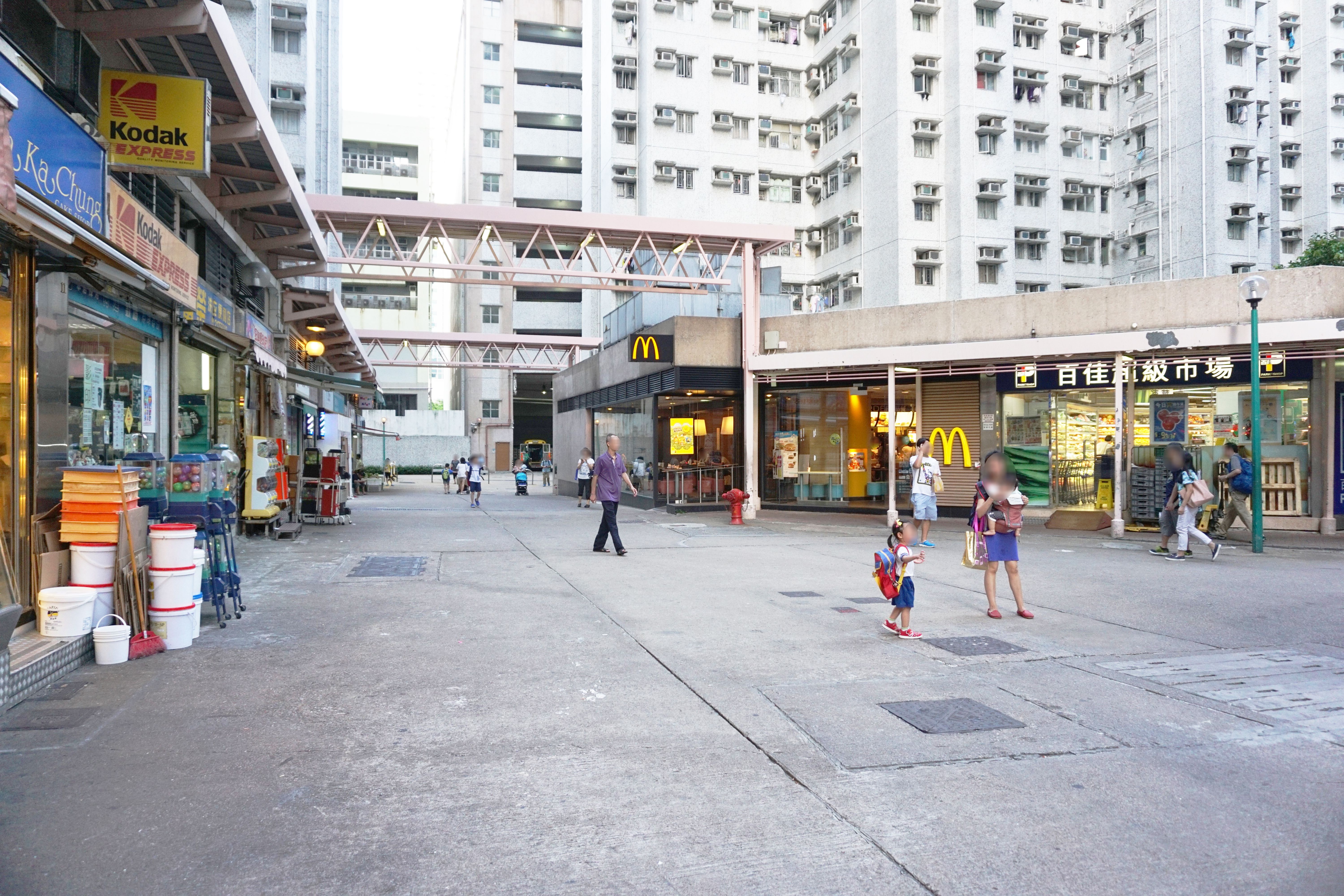 Charming Garden in Mong Kok, Hong Kong.